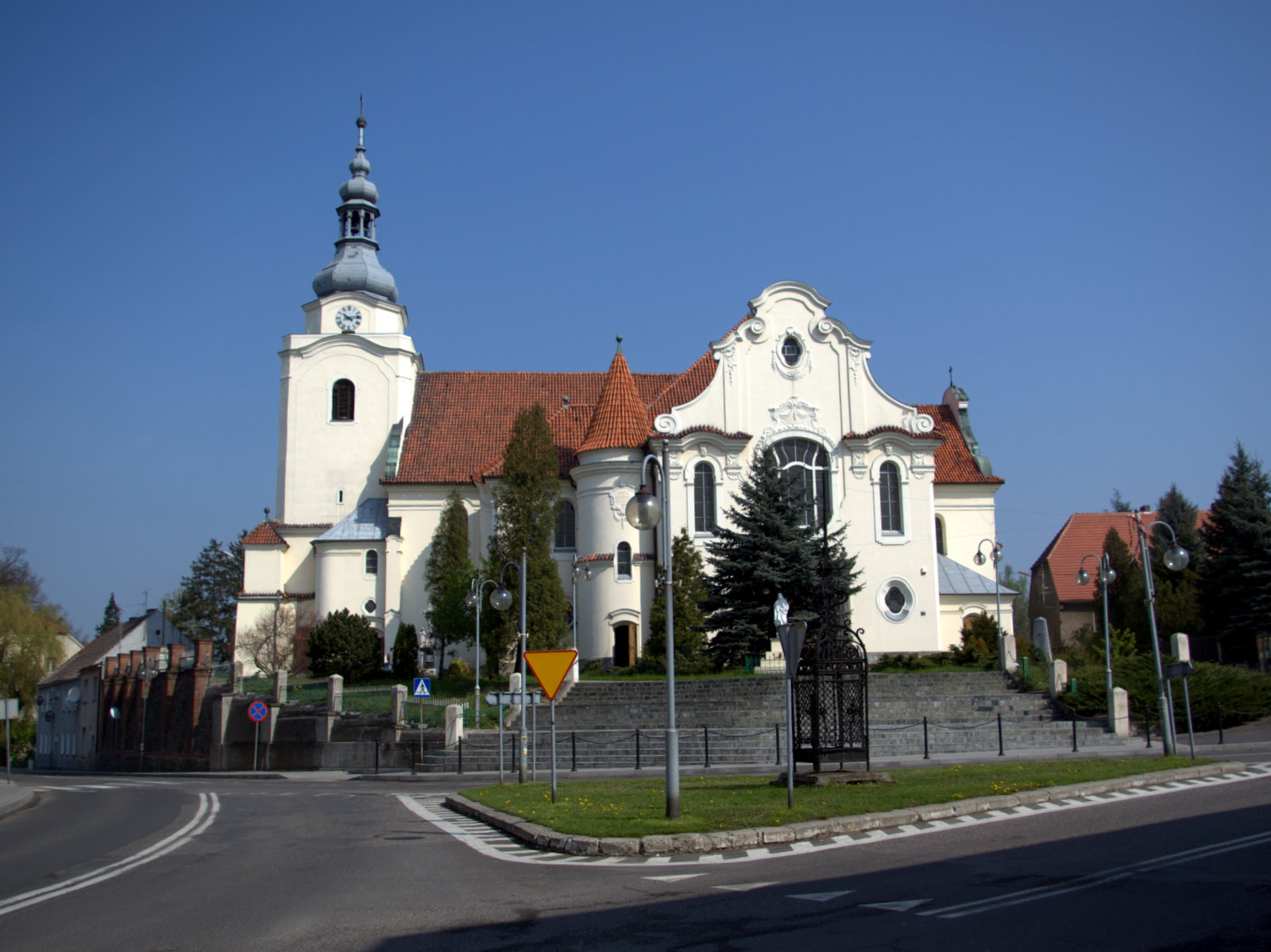 Poland, Korfantow, Trinity Church